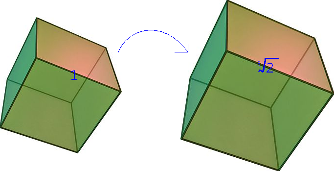 Doubling the cube problem